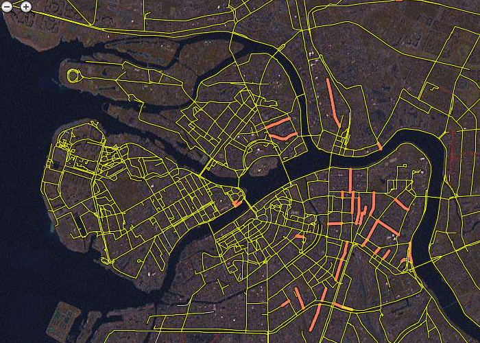 OpenStreetMap cut-out (or derivative work based on it): without further description This cut-out may be incomplete, and may contain errors, or may be obsolete. Don't rely solely on it for navigation. See the image in the present state and its original context on the OpenStreetMap wiki page for Osm-200607-peterburg.png